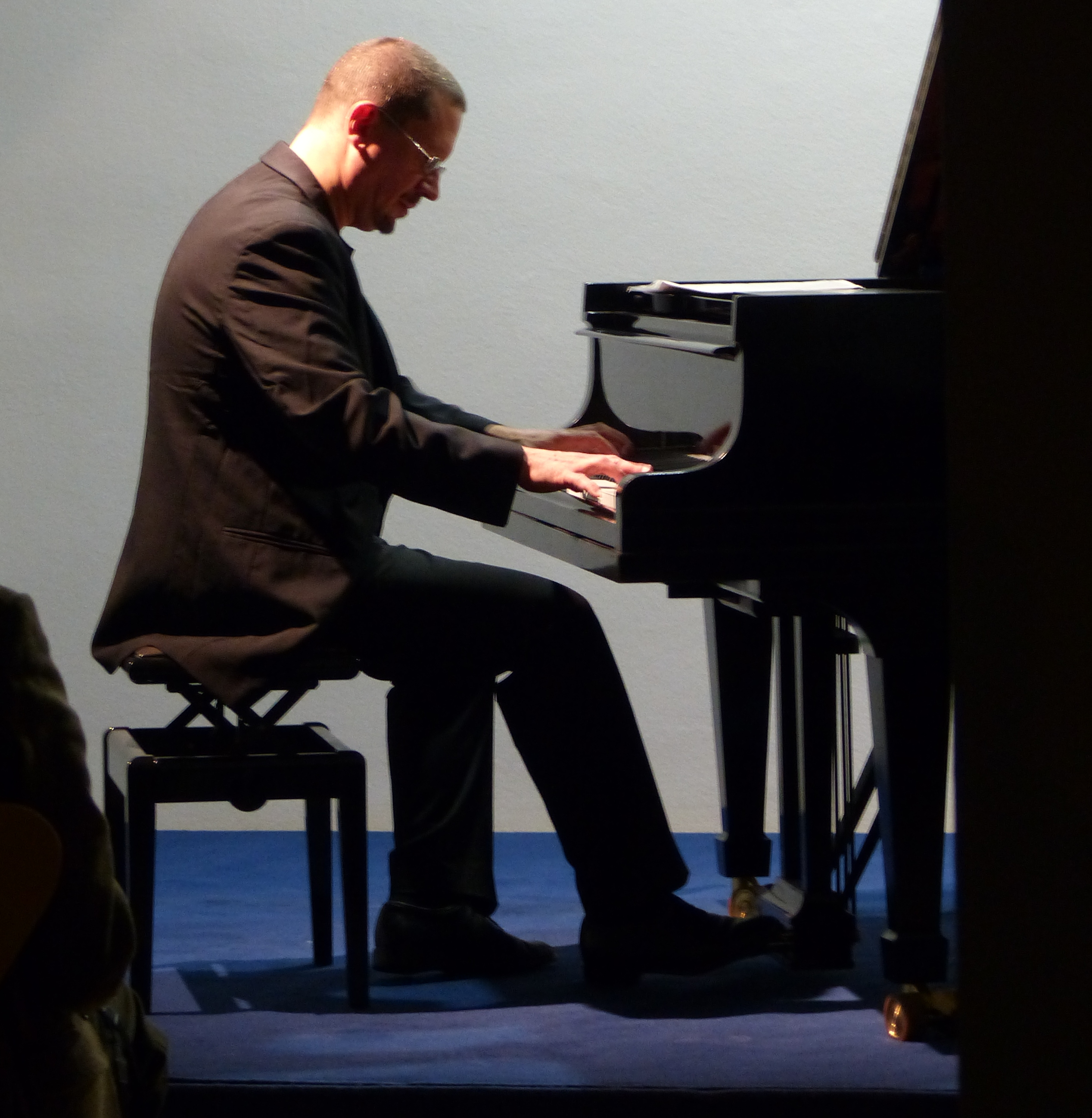 Chris Jarrett, Us-american pianist, piano recital, 2014, november26, 04. in Bad Ems, Künstlerhaus Schloss Balmoral